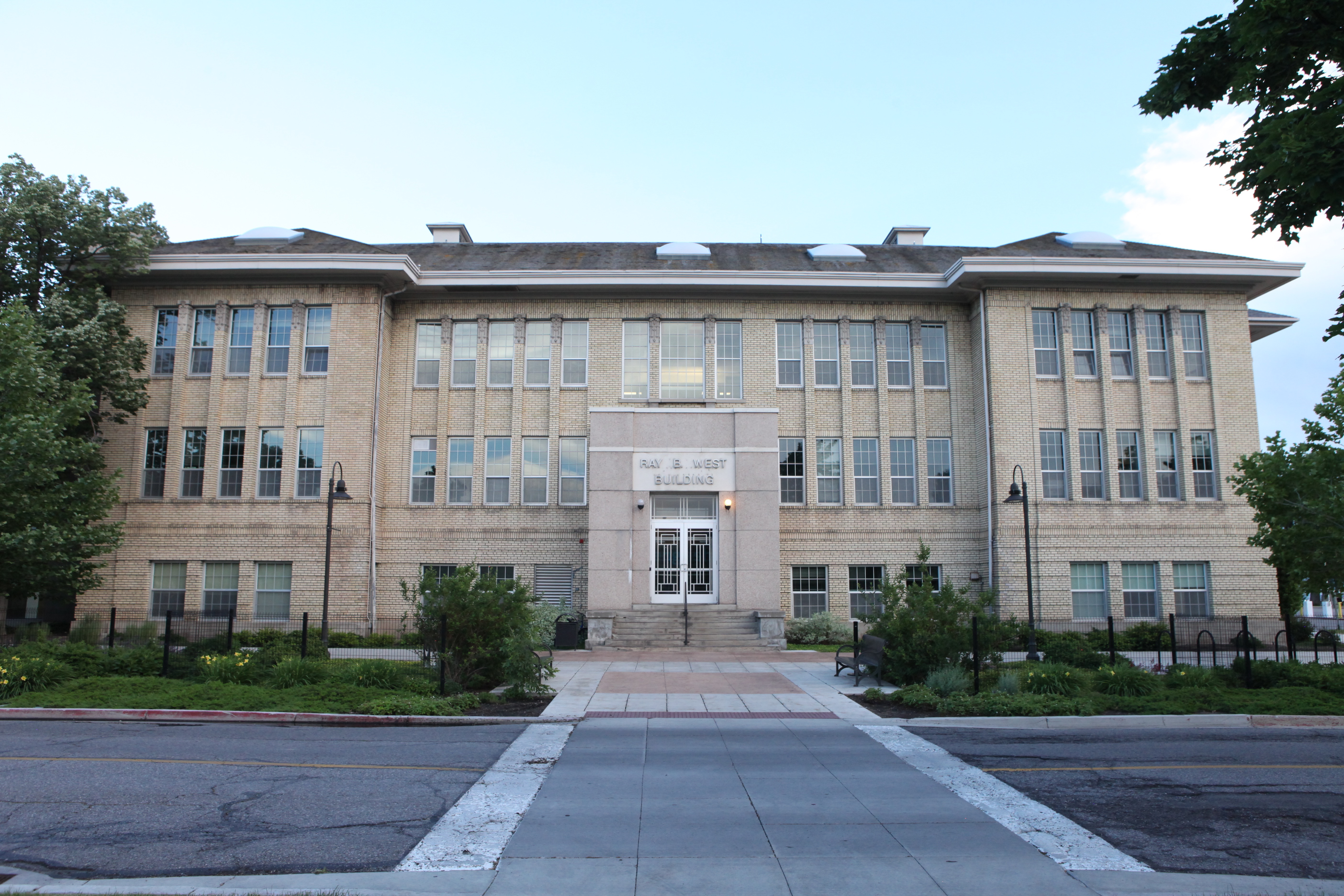 This is a photo of Utah State University's Ray B. West building.